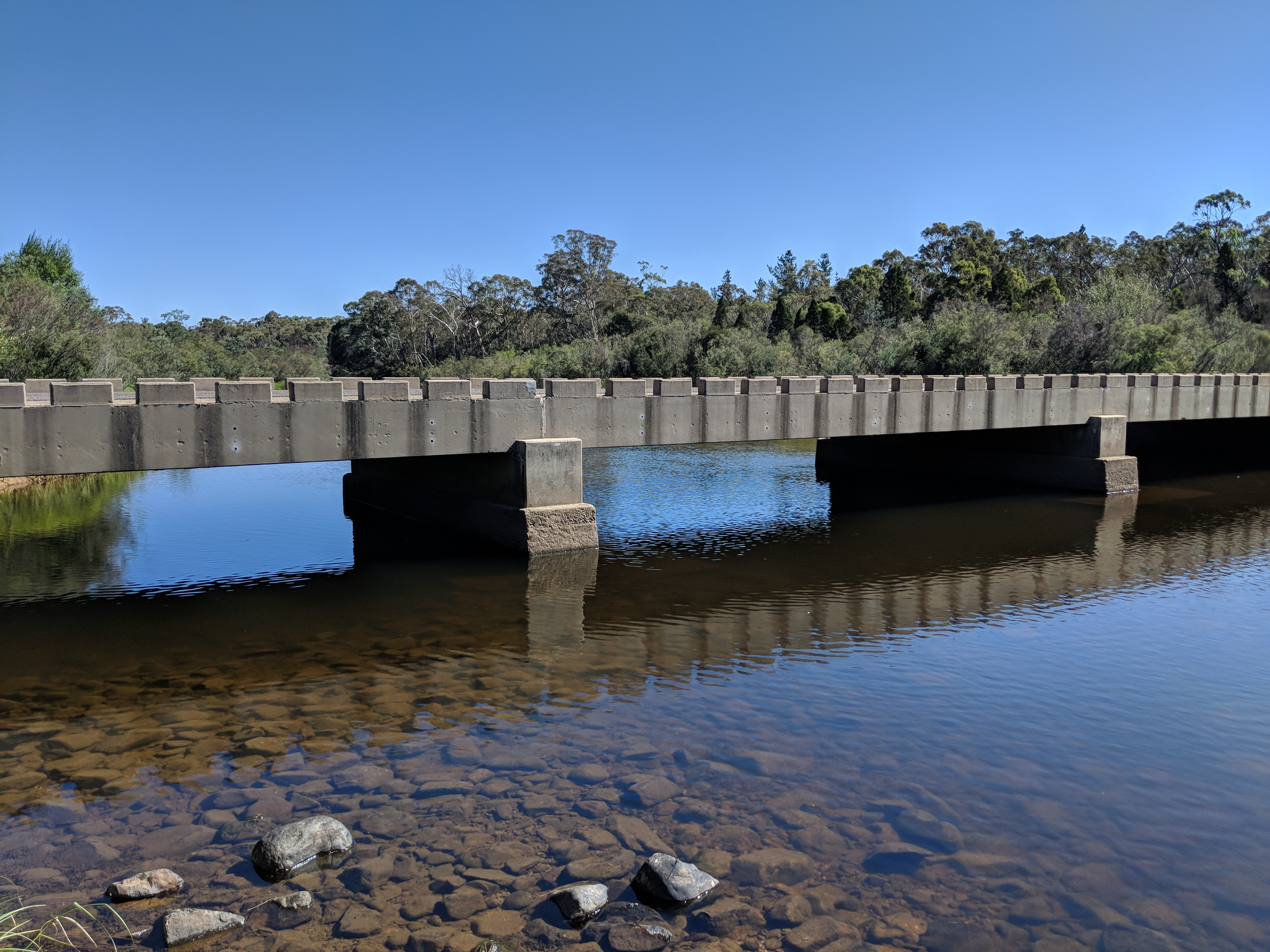 Bombay Bridge over the Shoalhaven, Bombay, New South Wales